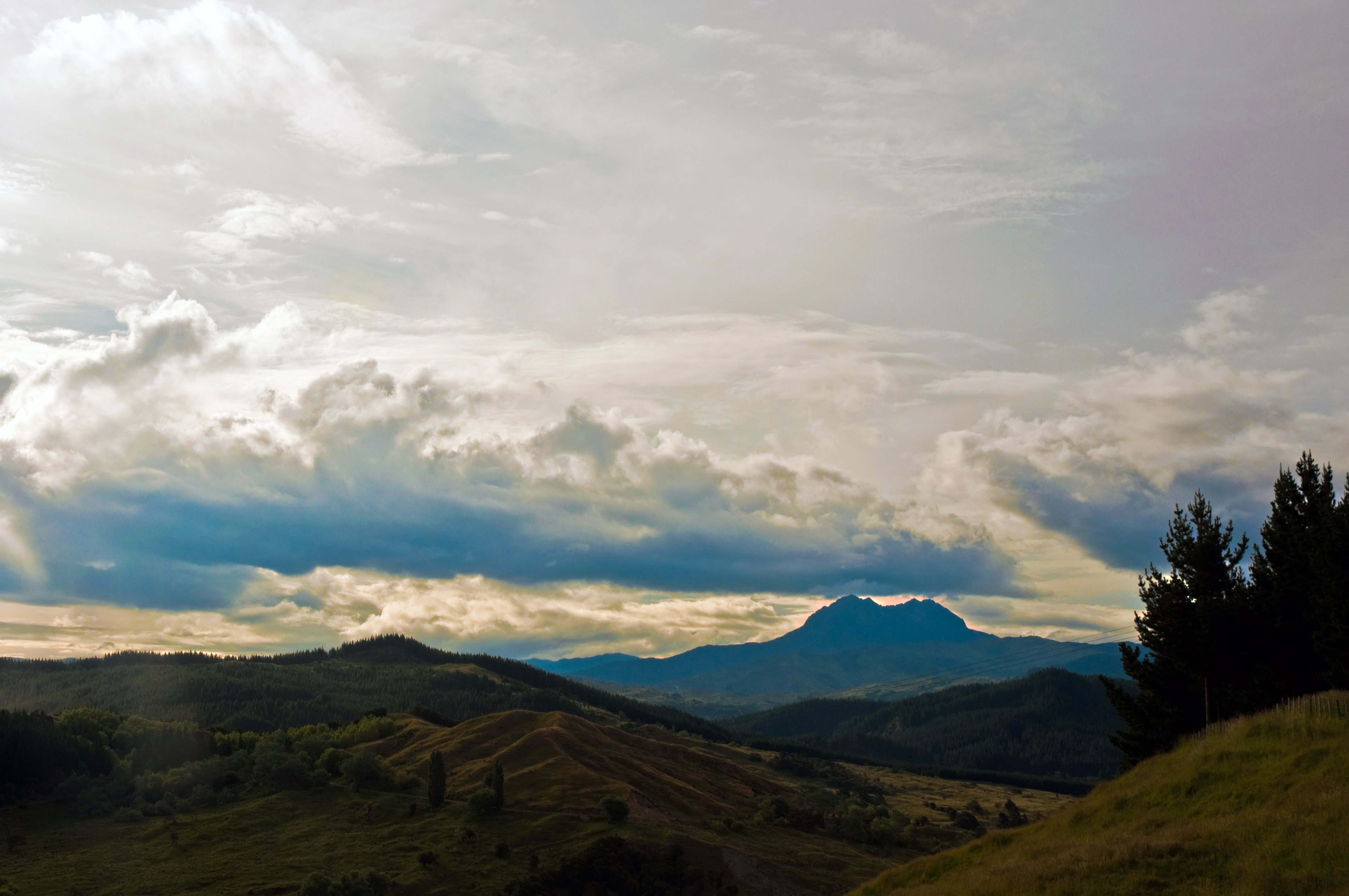 Hikurangi, East Coast, New Zealand, 14th. Dec. 2010